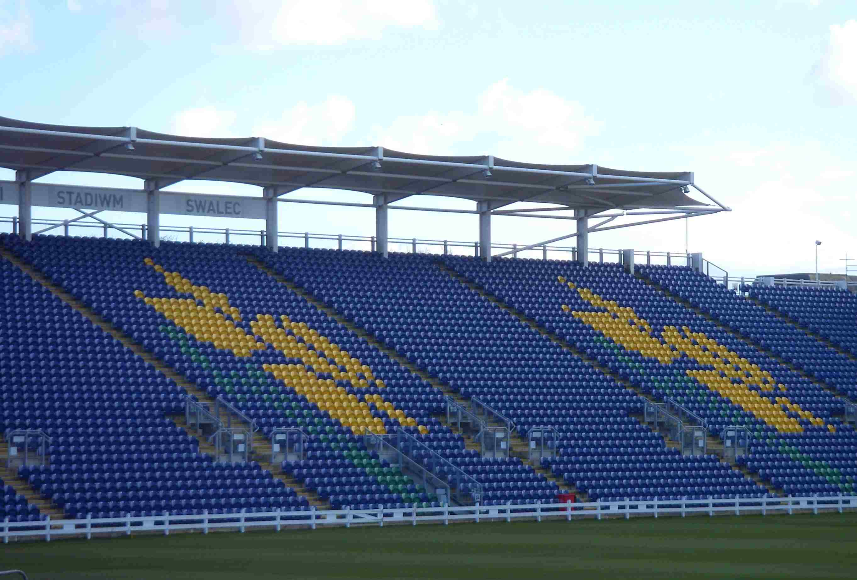 Stand at tyhe SWALEC Stadium